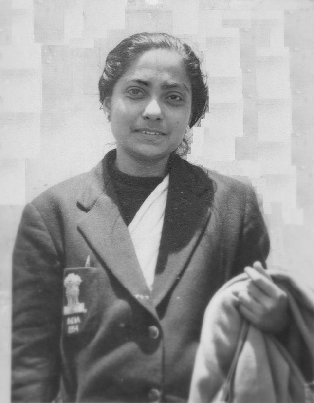 National Champion